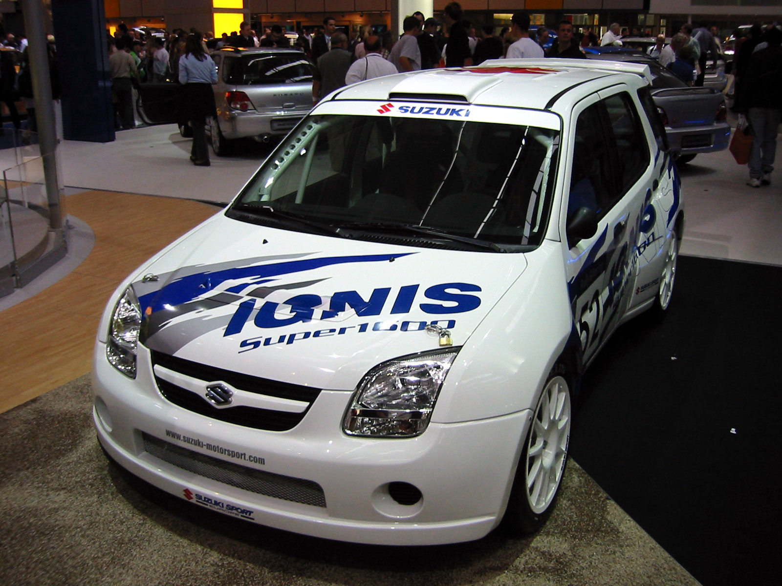 Suzuki Ignis of season 2004 at the IAA 2003